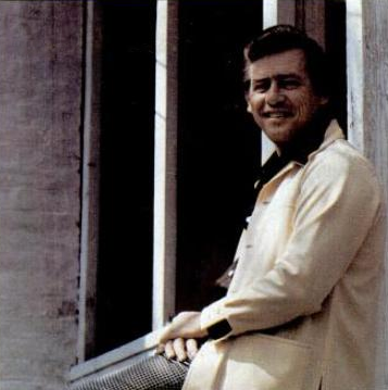 Trade ad for Cal Smith's single "Country Bumpkin".To better adapt it to his respective Wikipedia article, the ad was cropped and cleaned in a graphics editing program. The original can be viewed at the source below.